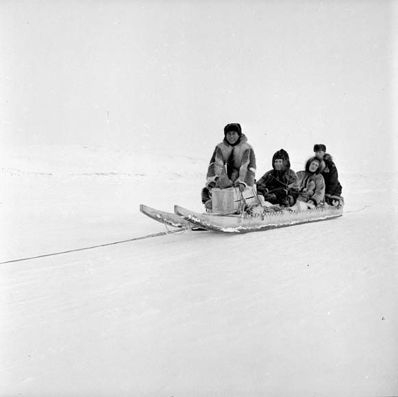 Governor General of Canada Vincent Massey and his wife, Alice Massey on a dog sled at Frobisher Bay